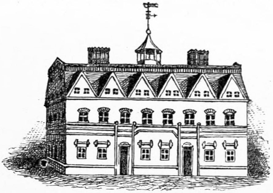 Drawing of the first Harvard Hall, which was burned, and was replaced by the present structure in 1766. Credited to be the oldest known use of a gambrel roof in America.